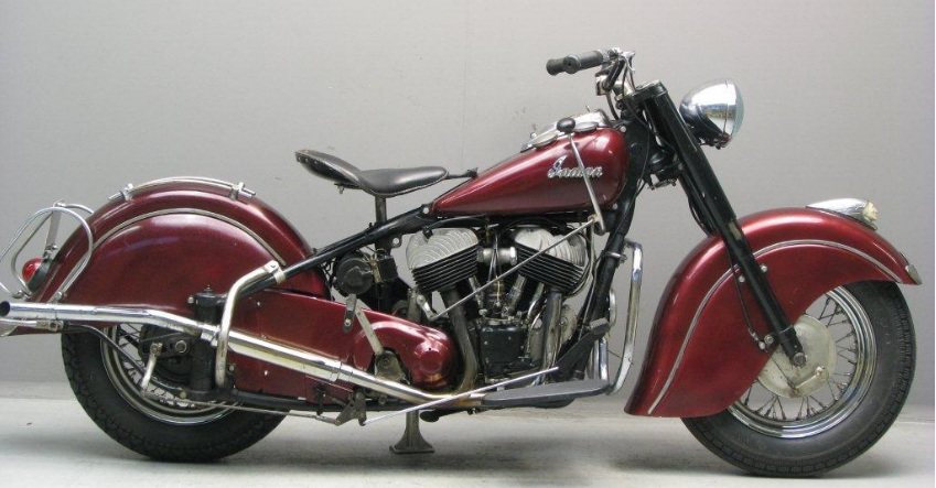 Indian Blackhawk Chief 80 Cubic Inches from 1950